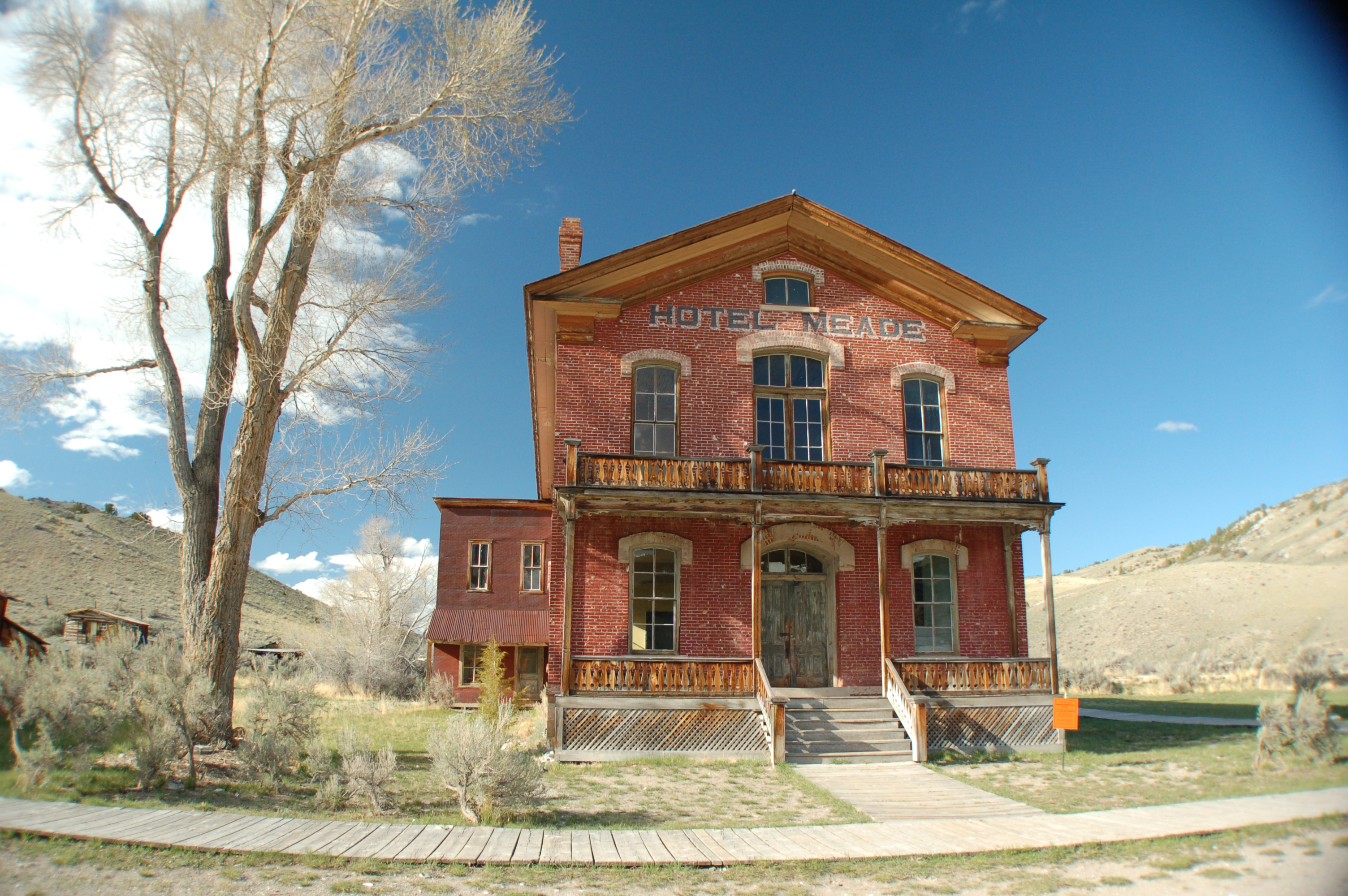 Montana! Photo by the U.S. Bureau of Reclamation montana1